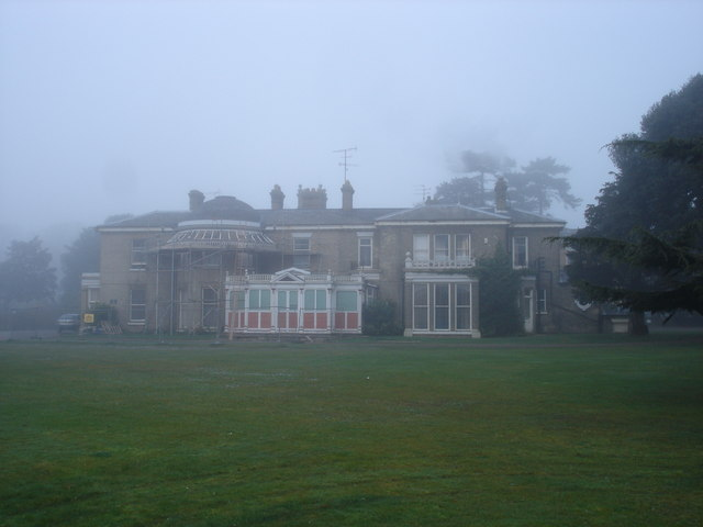 Goldrood House, St Joseph's College